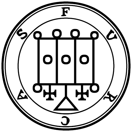 Furcas seal, THE BOOK OF THE GOETIA OF SOLOMON THE KING (1904)